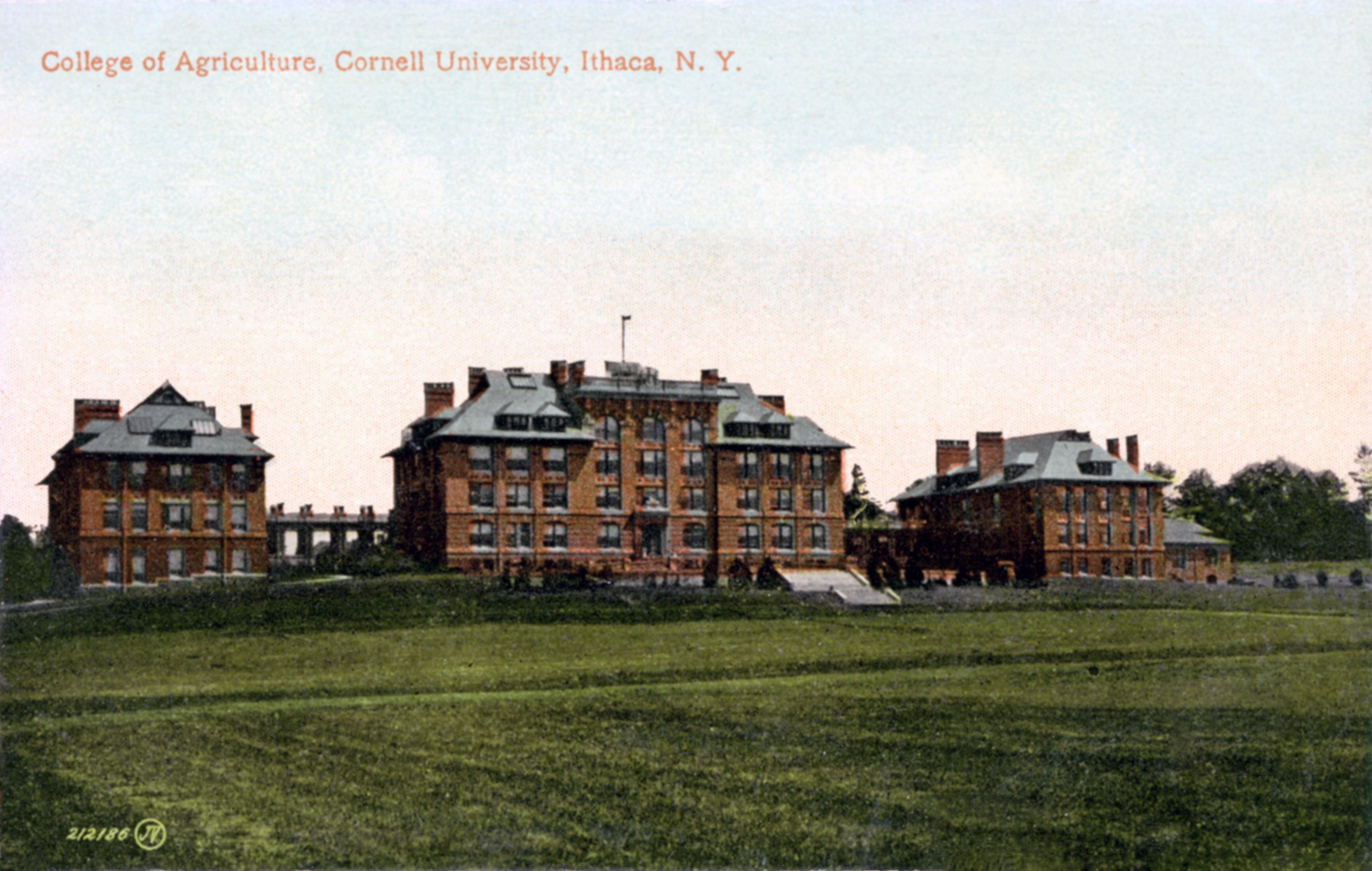 University agricultural quadrangle, south face.